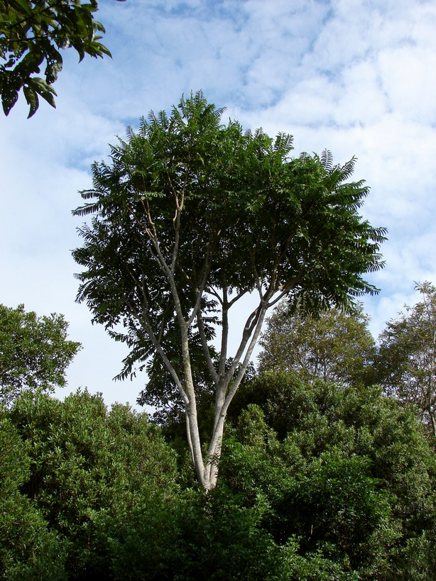 This tree impressed me with its tremendous leaves - they are 1.5m long with pairs of leaflets - photo below. In winter it has masses of small, blue fruit which are relished by birds, including bowerbird we saw near the tree. It is a rainforest pioneer - Very fast growing and common regrowth species. Location: Lamington National Park, (the camping ground) Queensland Australia